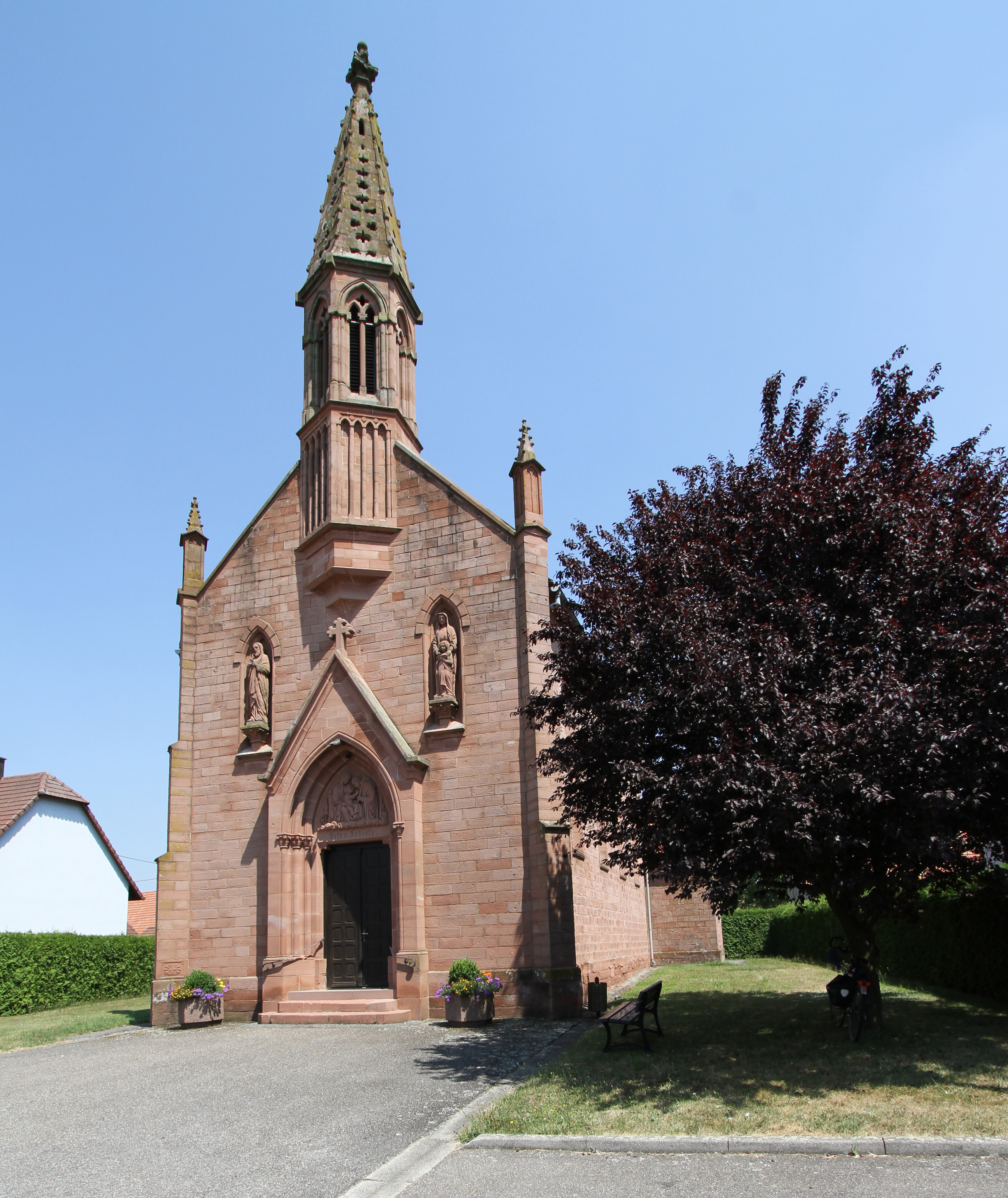 Church of St. Joseph in Leiterswiller.